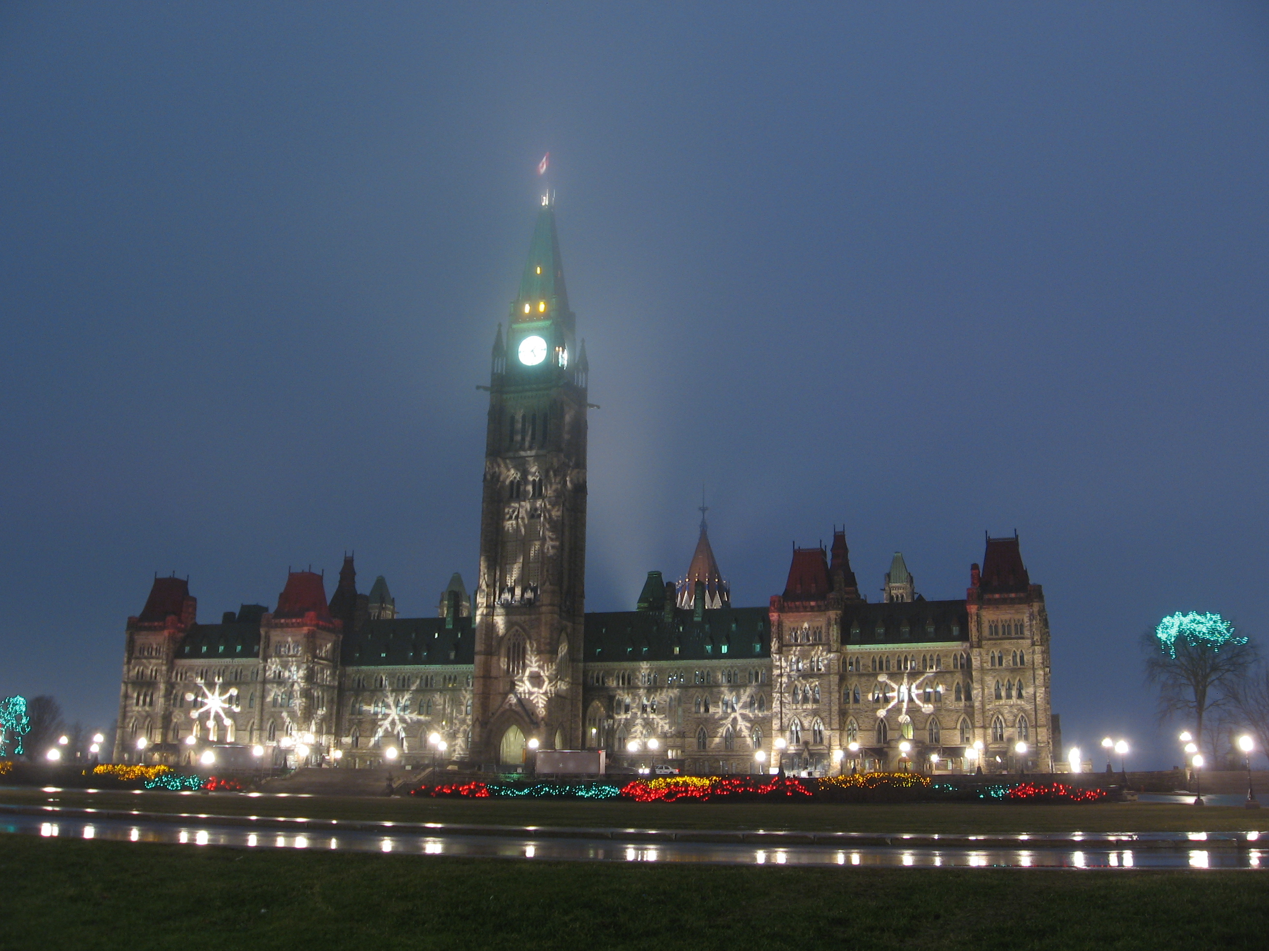 Centre Block of the Canadian Parliament in Ottawa showing the holiday decorations/winter lights. (January 2nd, 2011)